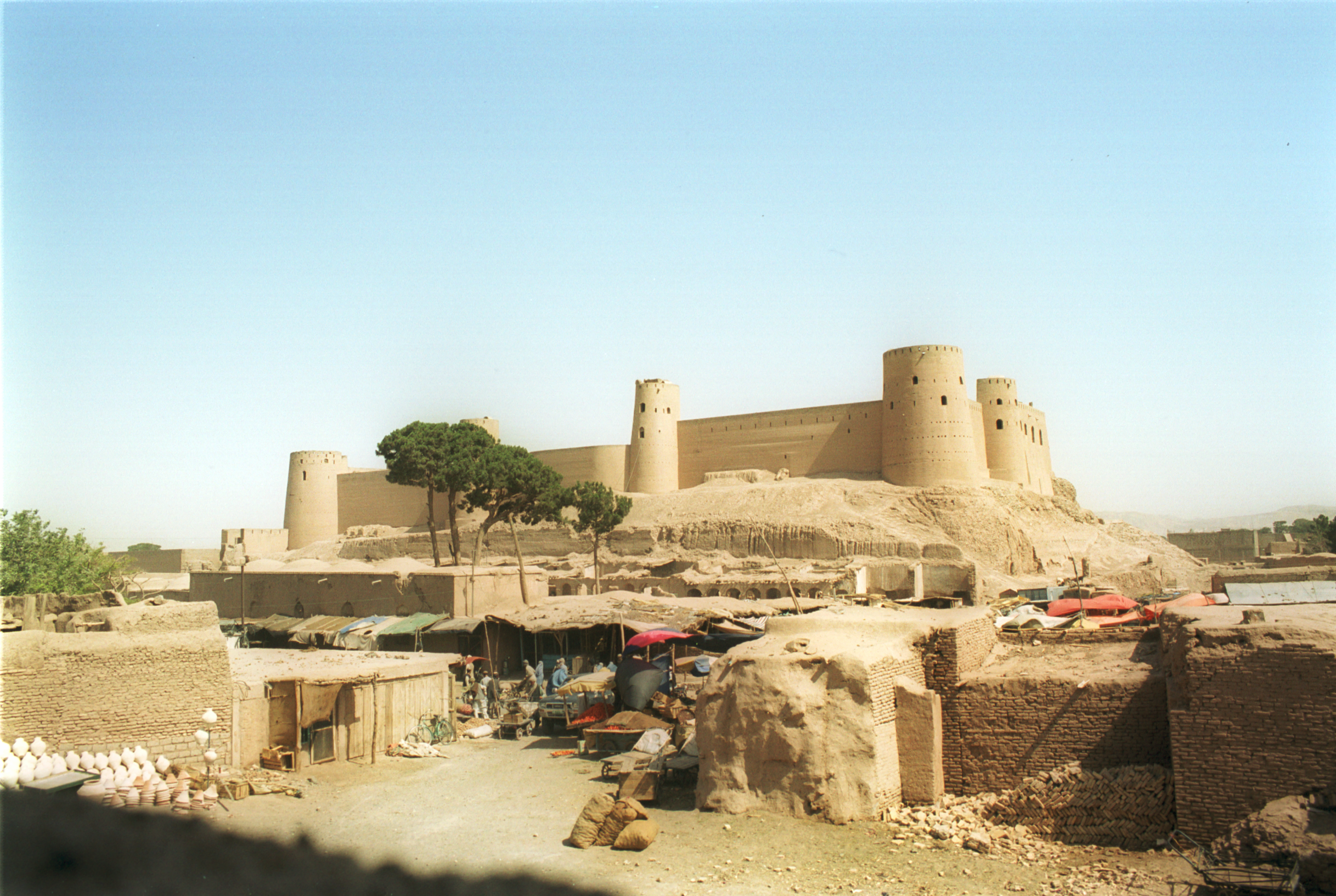 Citadel in Herat